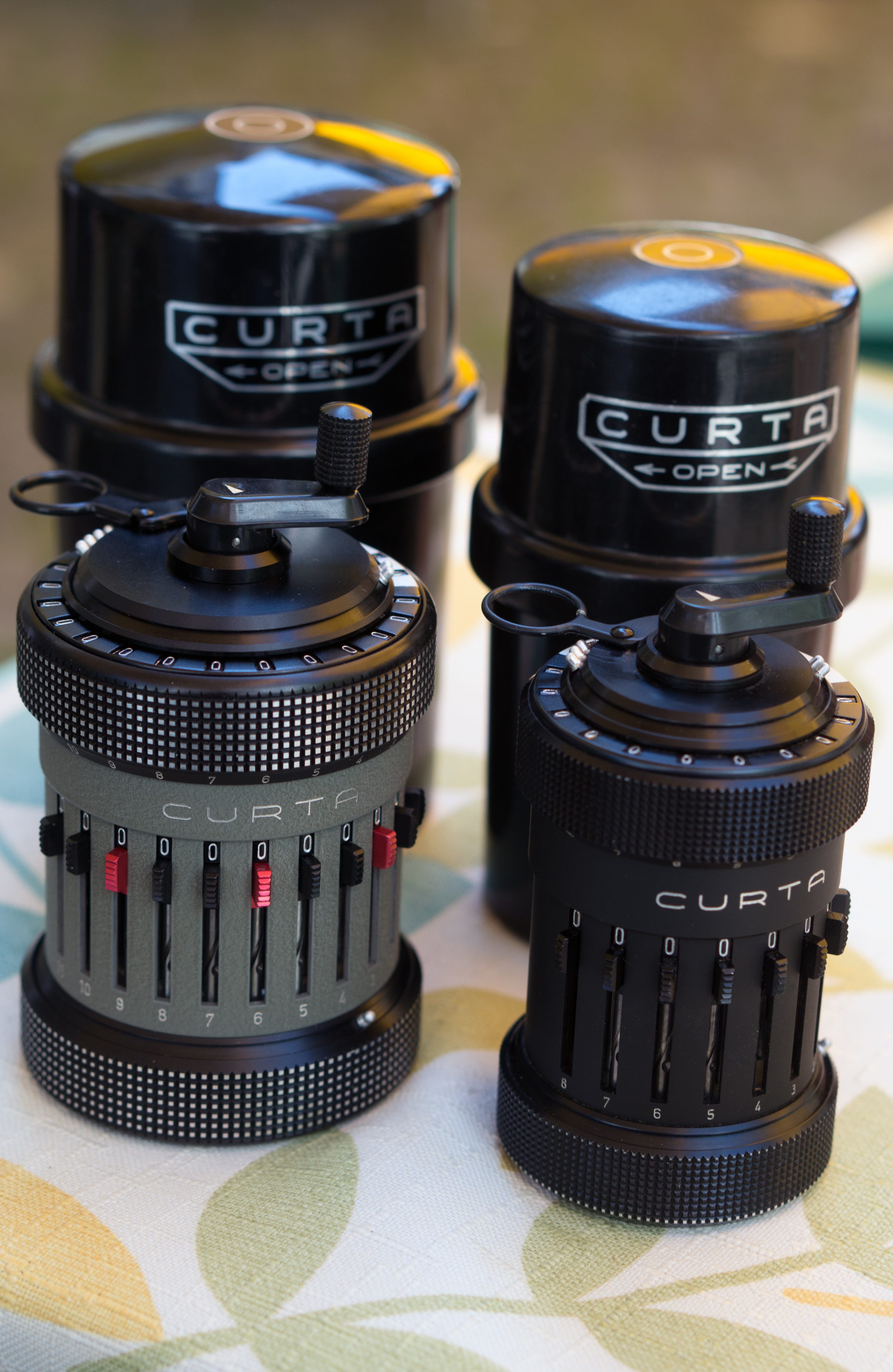 Type II and Type I Curta